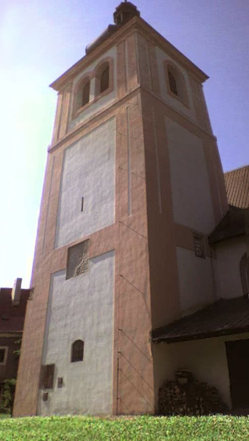 Český Dub (Czech Republic), church